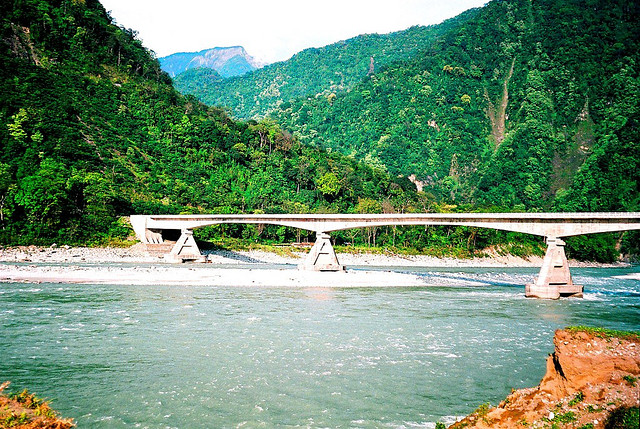 This is en route Tinsukia to Parashuram Kund in Arunachal Pradesh. The road is lined with orange orchards. Brahmaputra runs blue and fresh, a mere thread of its final form...